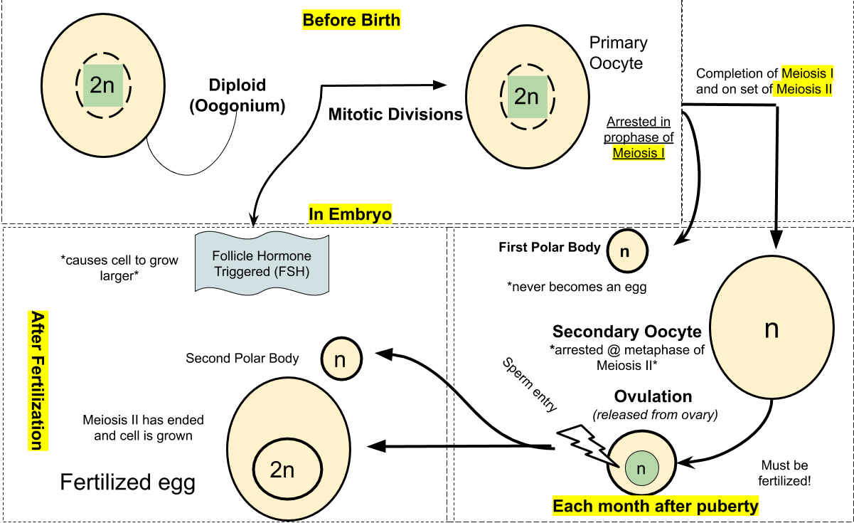 Female gametes are created through the process of Oogenesis.The female gamete is called an ovum. The process is longer compared to Spermatogenesis. Oogenesis is a process that occurs every month after puberty when the primary follicle starts to form.